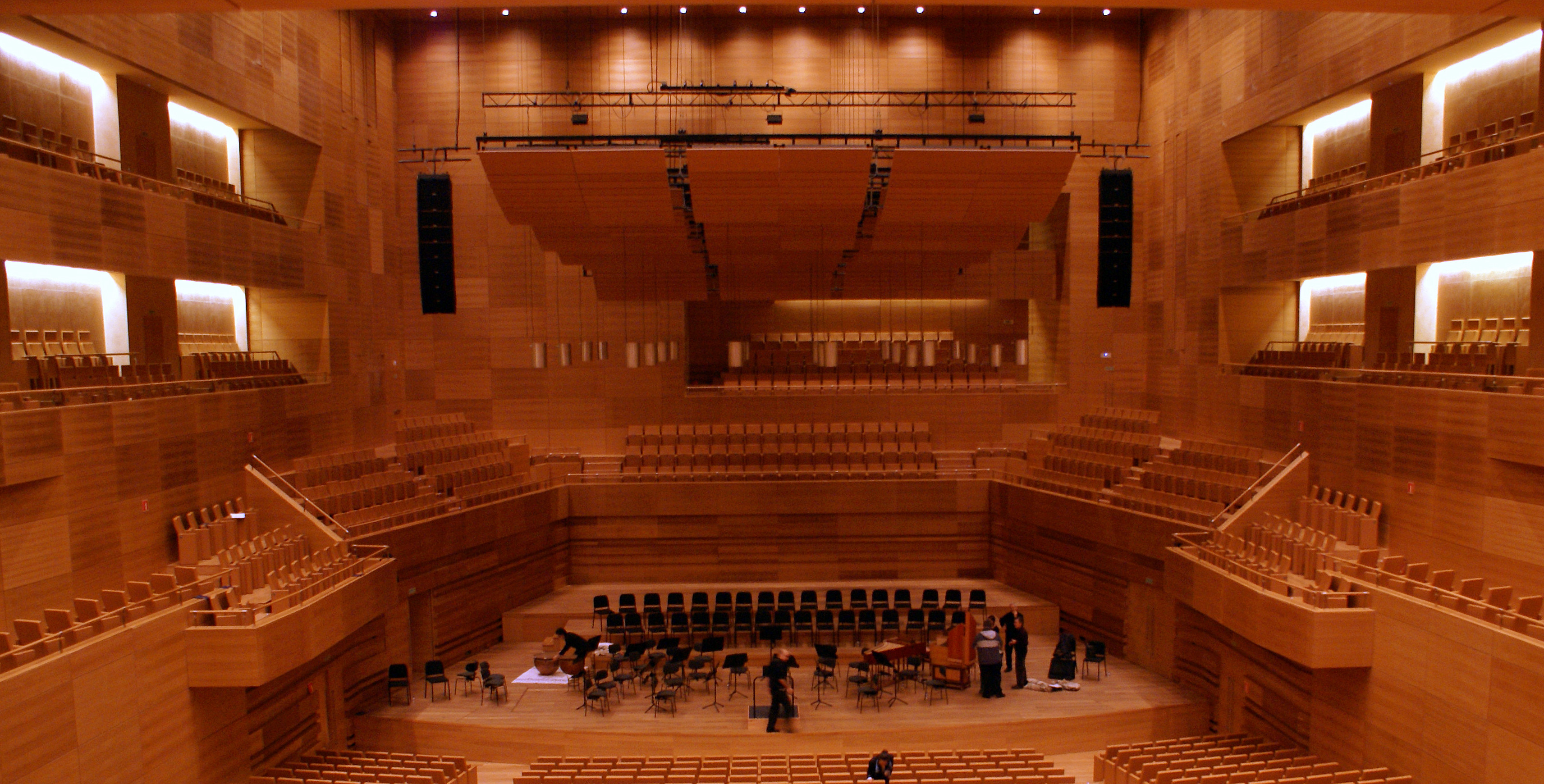 Valladolid's Auditorium, in the Miguel Delibes' Cultural Centre of the city.